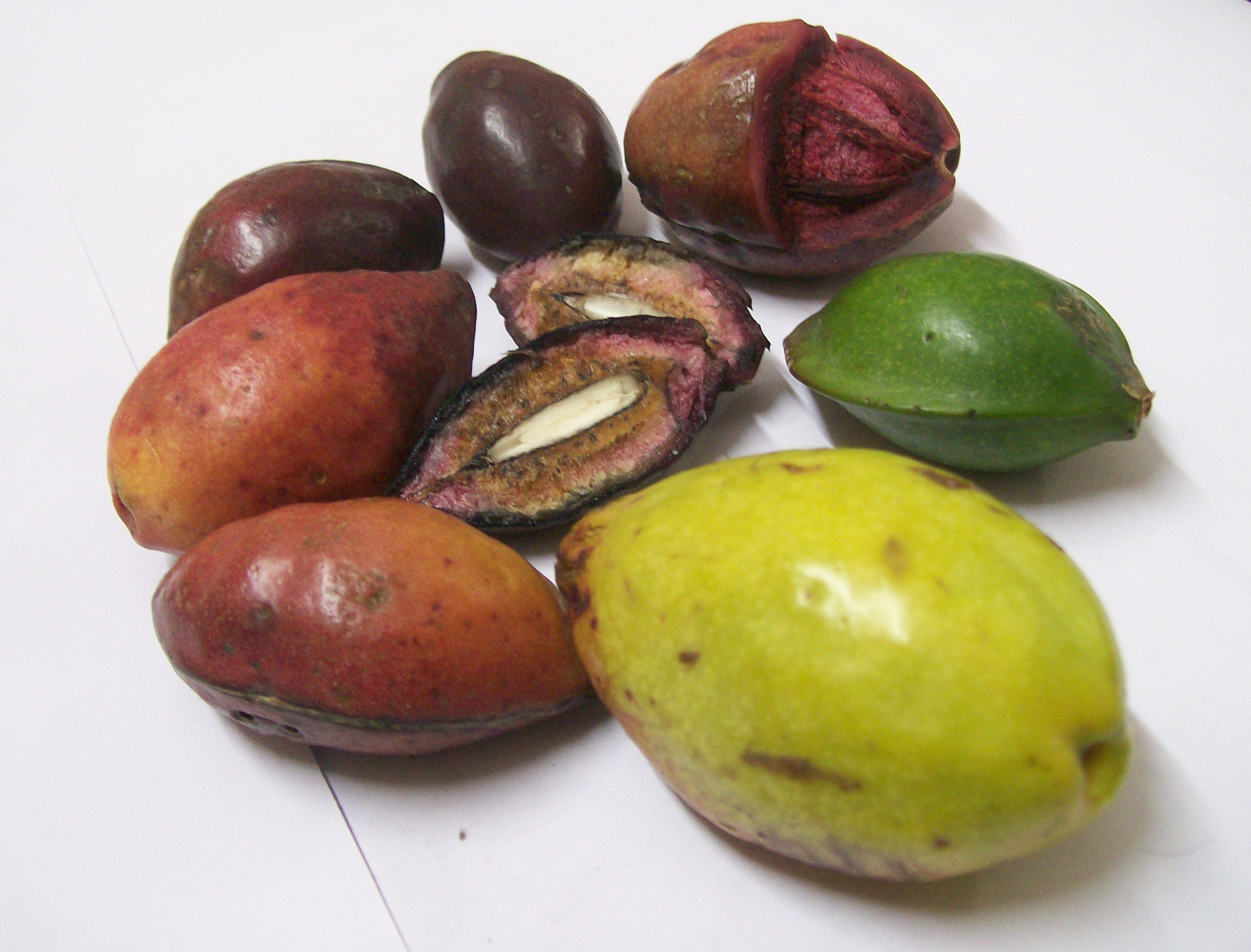 Terminalia catappa fruits at various stages of ripeness, one has been partially opened to reveal the fibrous and woody endocarp (1 O'Clock) and one has been sawn through to reveal the nut